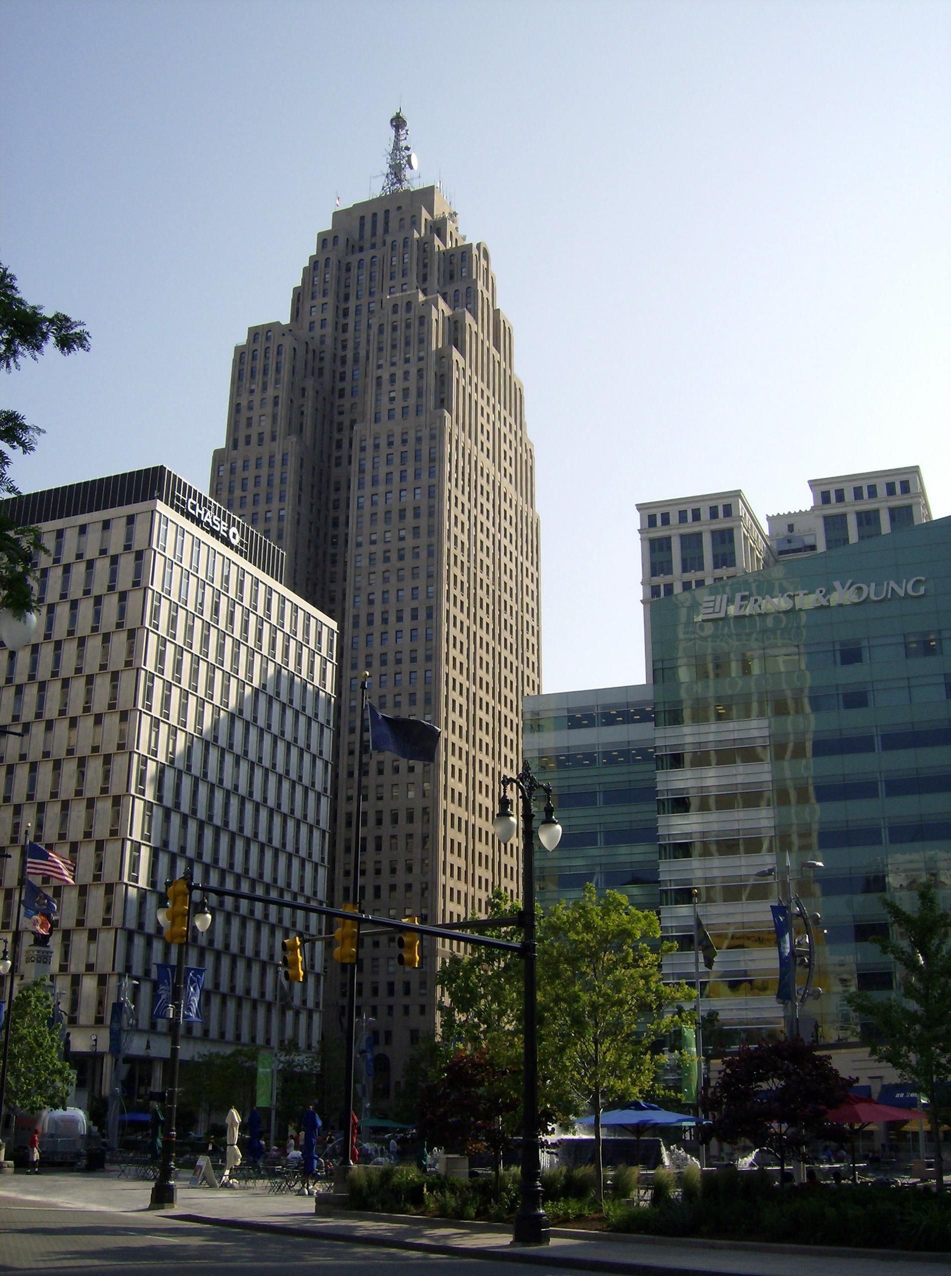 self made